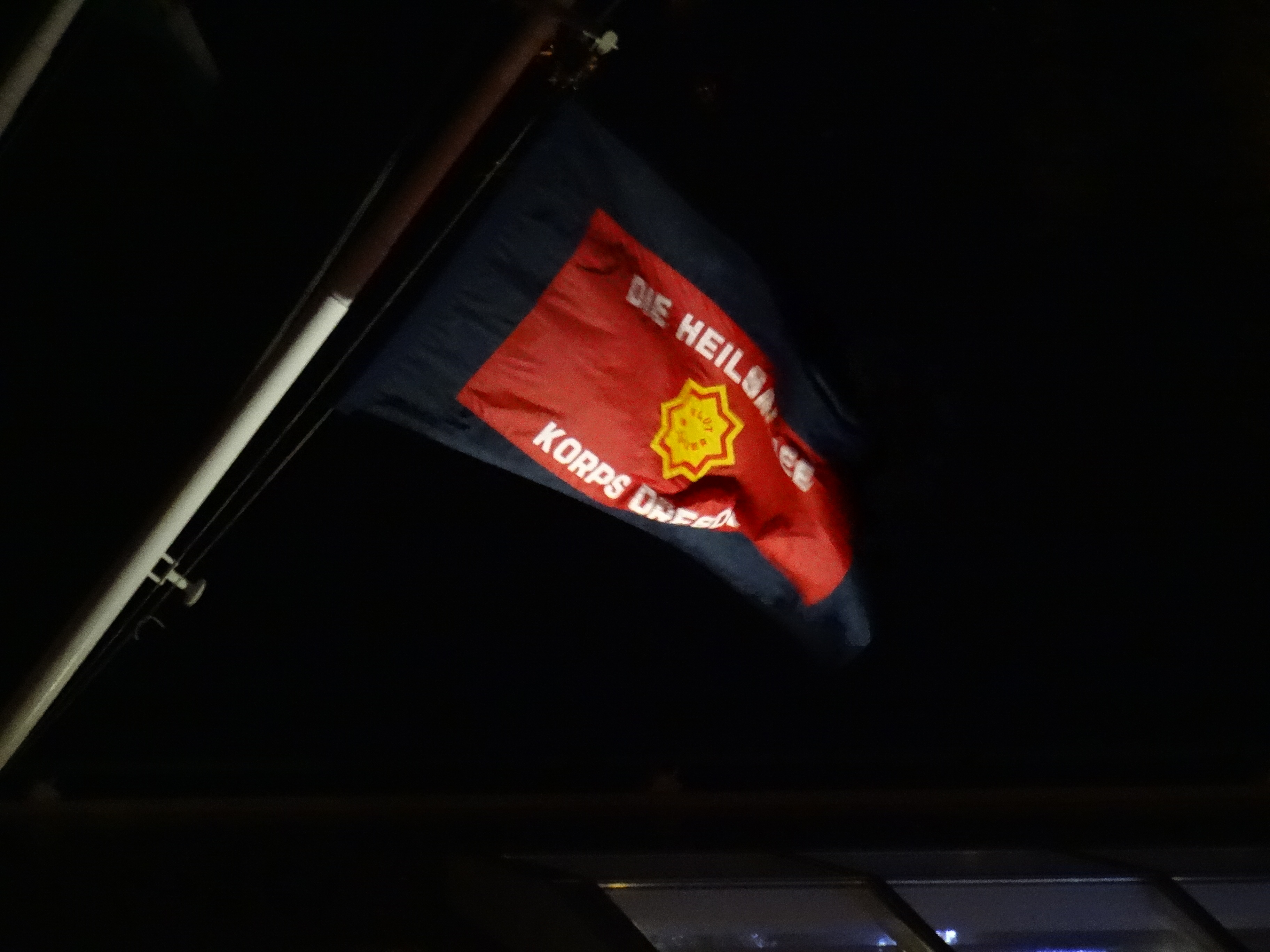 Flag of Salvation Army in Germany, Innere Altstadt, Dresden, Germany